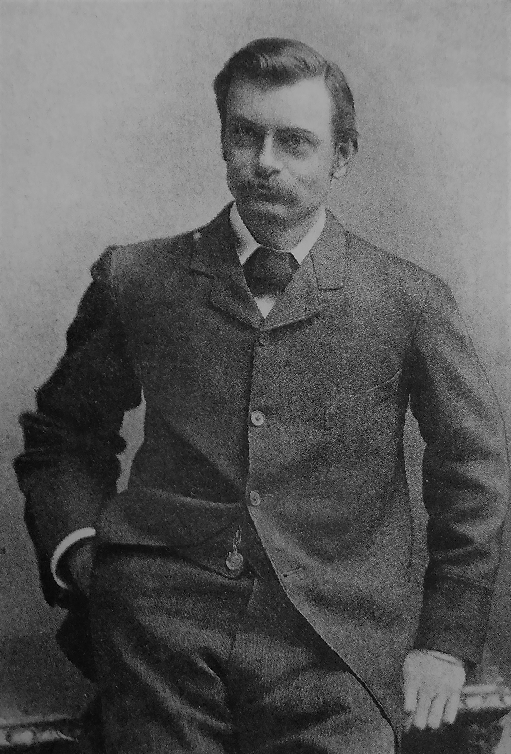 Arthur Milnes Marshall, zoologist, Owens College/Victoria University, Manchester 1890